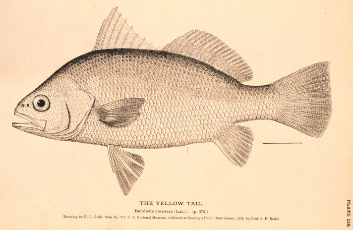 Bairdiella chrysura (=Syn. Bairdiella chrysoura)